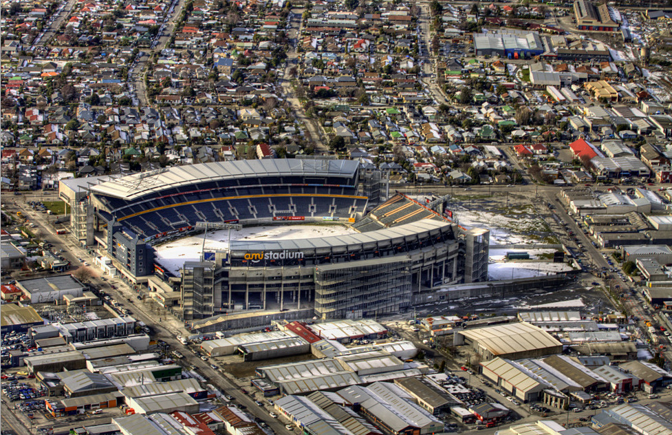 The All Blacks are visiting Christchurch today - 17 September 2011. "Rugby World Cup 2011 (RWC 2011) Tournament partners have reluctantly announced that Christchurch will be unable to host the seven matches currently scheduled to be played at the AMI/Lancater Park Stadium in Christchurch. This follows a detailed assessing of damage to the Stadium, grounds and infrastructure caused by the 6.3 magnitude earthquake that struck the city on 22 February 2011. This image - taken on 29 July 2011 - also shows the remains of the very heavy snow fall we had on Monday 25 July 2011.